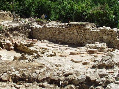 Ruins of Alburnus Maior, Roşia Montană, Romania